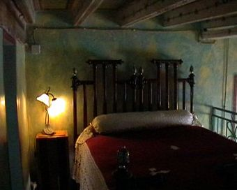 Bedroom of Hypogeum De Beaumont Bonelli Bellacicco at (Taranto, Italy)